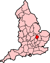 one of the Historic counties of England